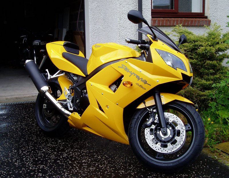 The new bike with the old bike looking out sulkily from the dark of the garage.